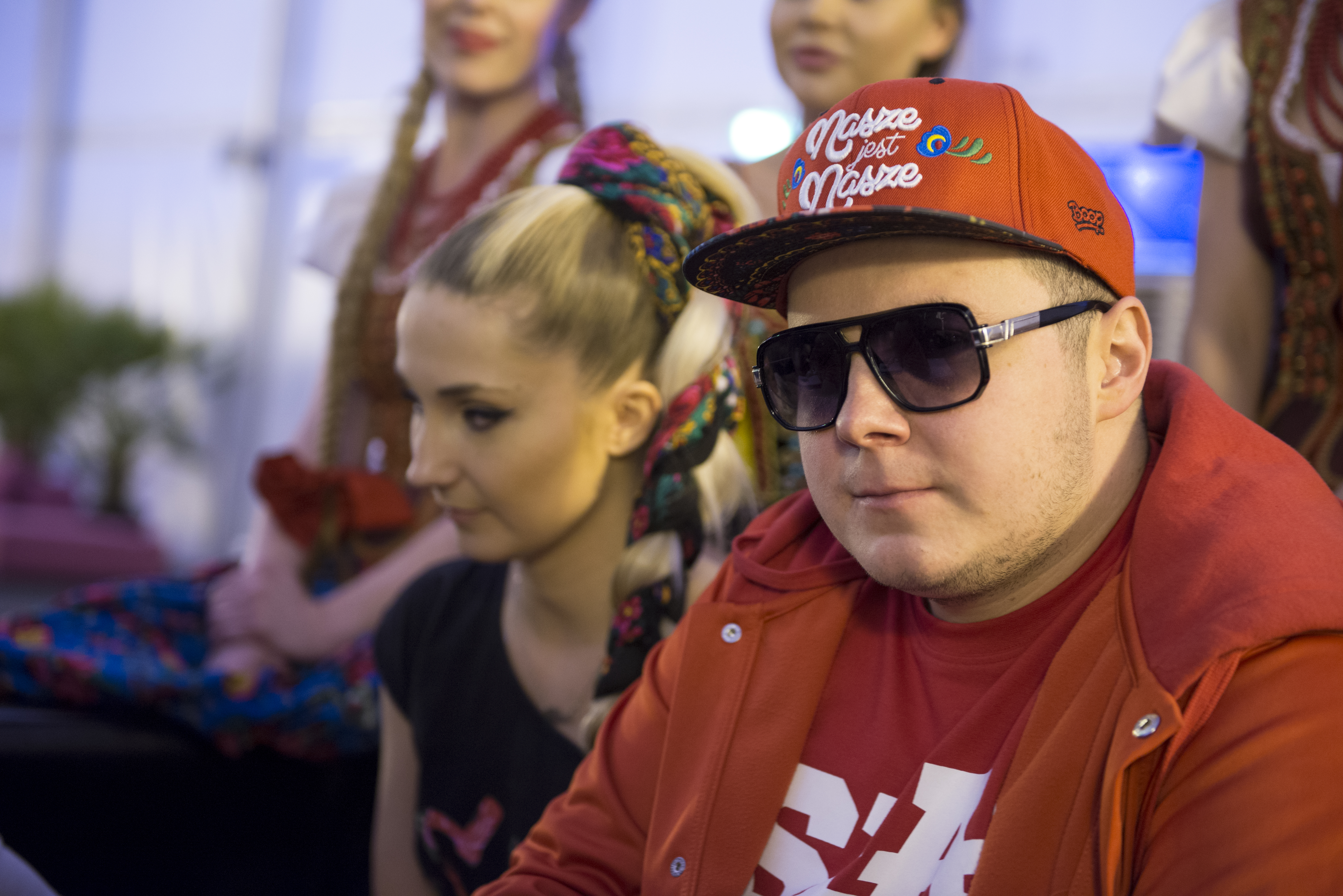 Donatan and Cleo at a Meet & Greet during the Eurovision Song Contest 2014 Copenhagen. (Help translate this text)